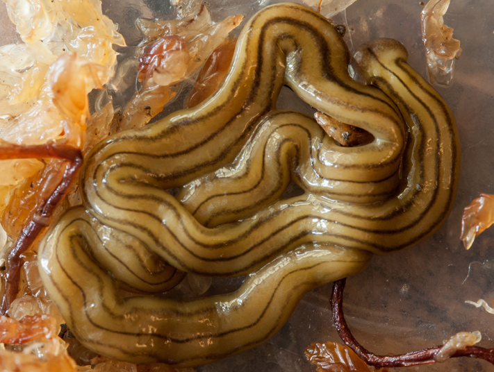 Diversibipalium multilineatum. Photo L. Cavigioli Figure 1a of paper. A specimen of Diversibipalium multilineatum (Makino & Shirasawa, 1983) collected from a private garden in Bologna (Italy). Figure 1a: Body.